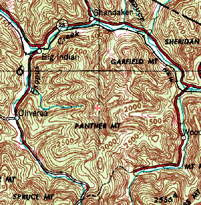 Crop of USGS map of Panther Mountain showing rosette stream pattern, remnants of ancient meteor crater wall